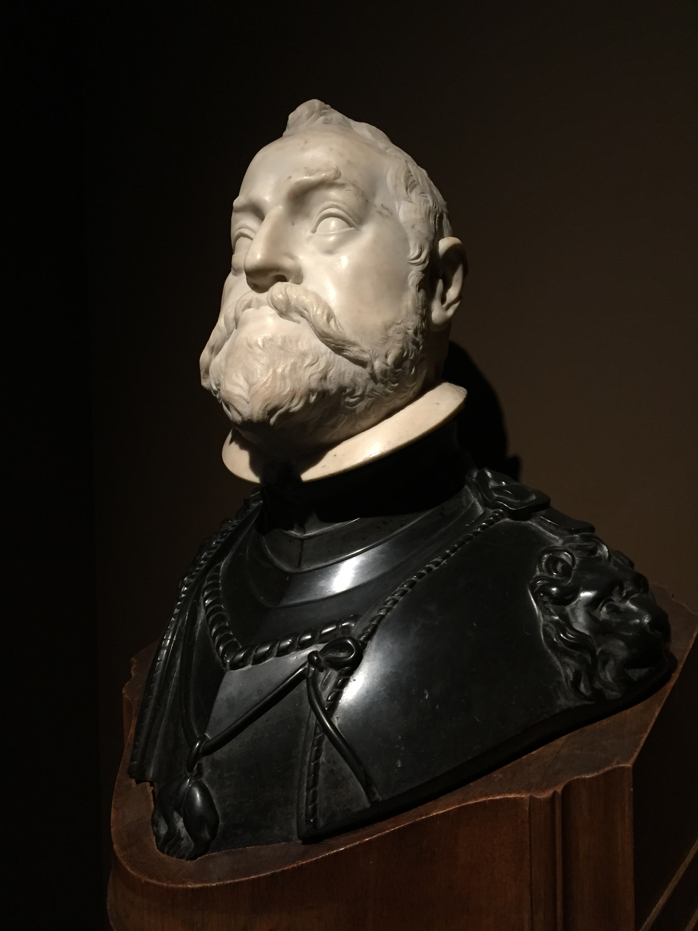 A portrait bust of Rudolf II (18 July 1552 – 20 January 1612), who was Holy Roman Emperor (1576–1612), King of Hungary and Croatia (as Rudolf I, 1572–1608), King of Bohemia (1575–1608/1611) and Archduke of Austria (1576–1608). He was a member of the House of Habsburg. The bust, in the collection of the Royal Museum of Fine Arts Antwerp, was on display in the Antwerp City Hall in Antwerp, Belgium. Royal Museum of Fine Arts Antwerp Native nameKoninklijk Museum voor Schone Kunsten AntwerpenLocationAntwerp, BelgiumCoordinates51° 12′ 29.99″ N, 4° 23′ 40.99″ E Established11 August 1890 Web page control : Q1471477 VIAF: 147950785 ISNI: 0000 0004 0608 5287 LCCN: n80093417 WorldCat institution QS:P195,Q1471477